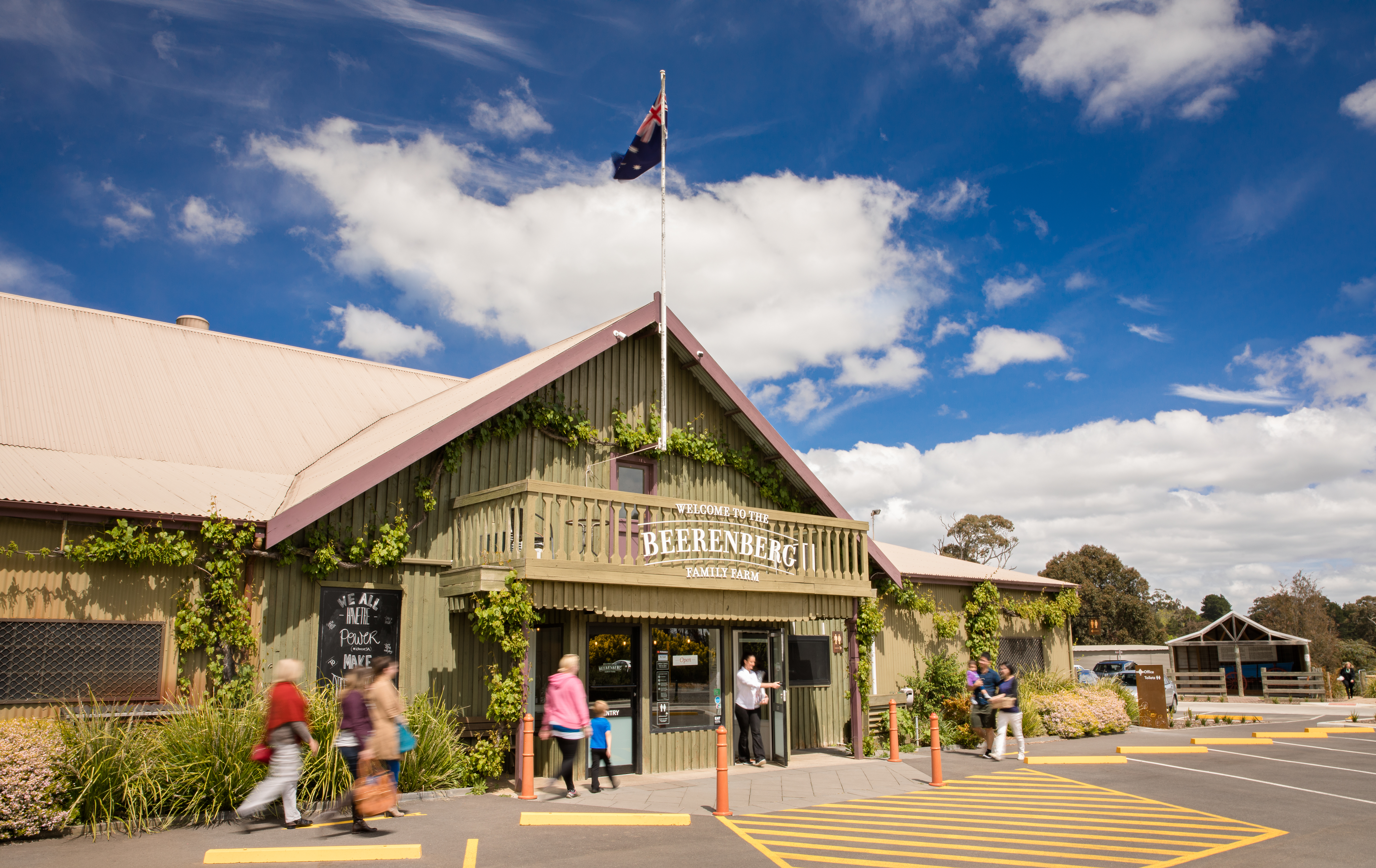 Beerenberg Farm Shop-Outside